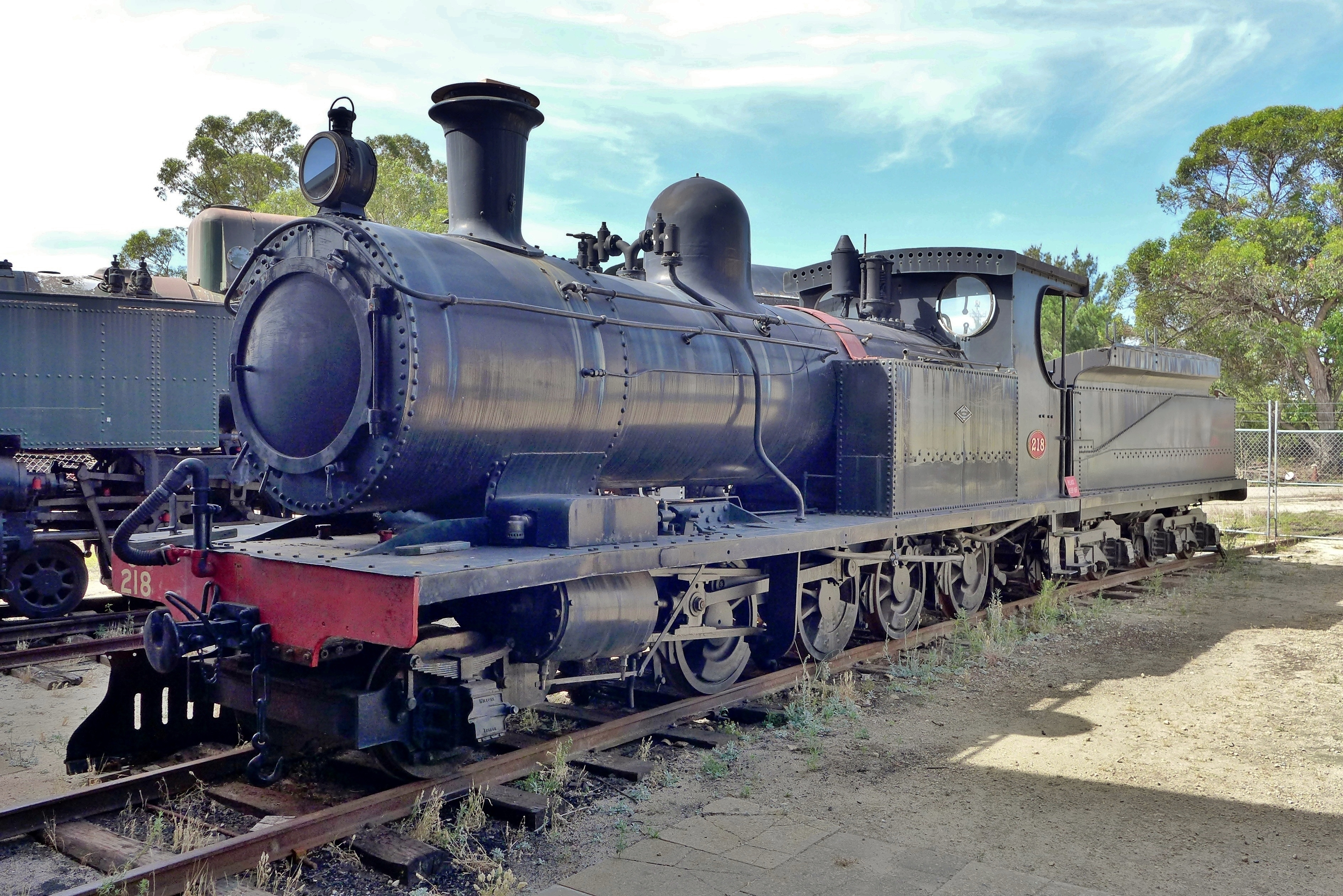 Portrait of Western Australian Government Railways (WAGR) O class steam locomotive no O218, at the Railway Museum, Bassendean, Western Australia.